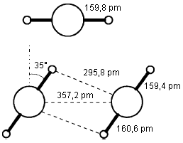 Computed structure of mercury(II) hydride freely inspired by Figure 10 of Xuefeng Wang et Lester Andrews, « Mercury dihydride forms a covalent molecular solid », Physical Chemistry Chemical Physics, vol. 7, no 5, 2005, p. 750 (ISSN 1463-9076, DOI 10.1039/b412373e).